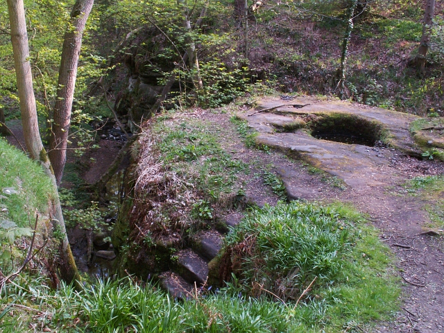 Dunino Den and steps. Dunino Den and the flat topped rock with sump that looks out over the Den